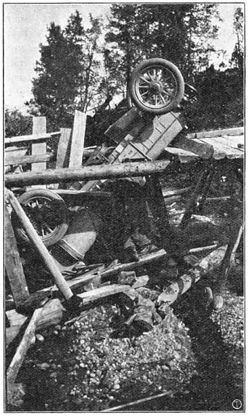 1907 Itala - bridge crash - Project Gutenberg etext 17432